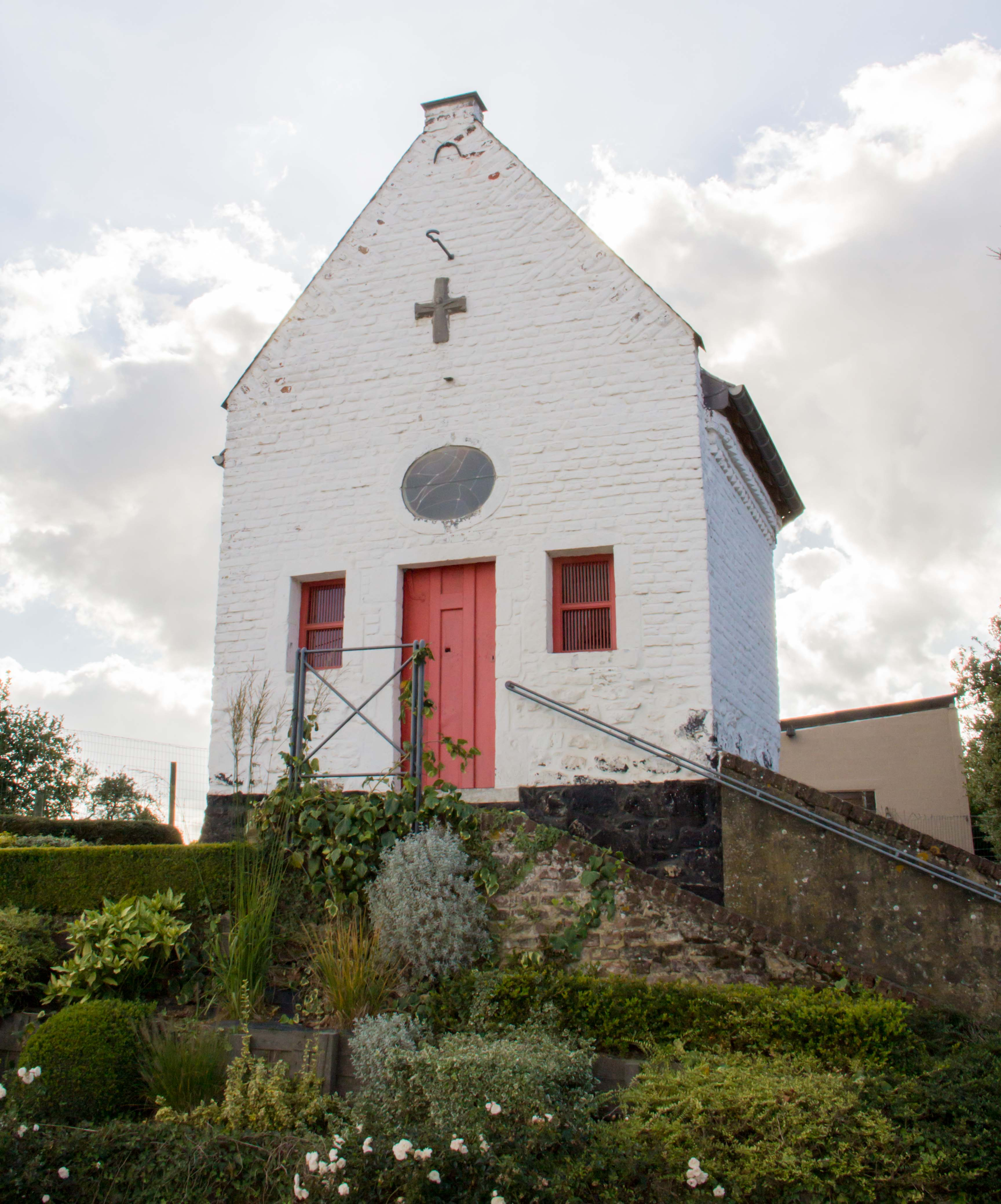 Chapel of Saint-Roch in Perwez (Belgium)